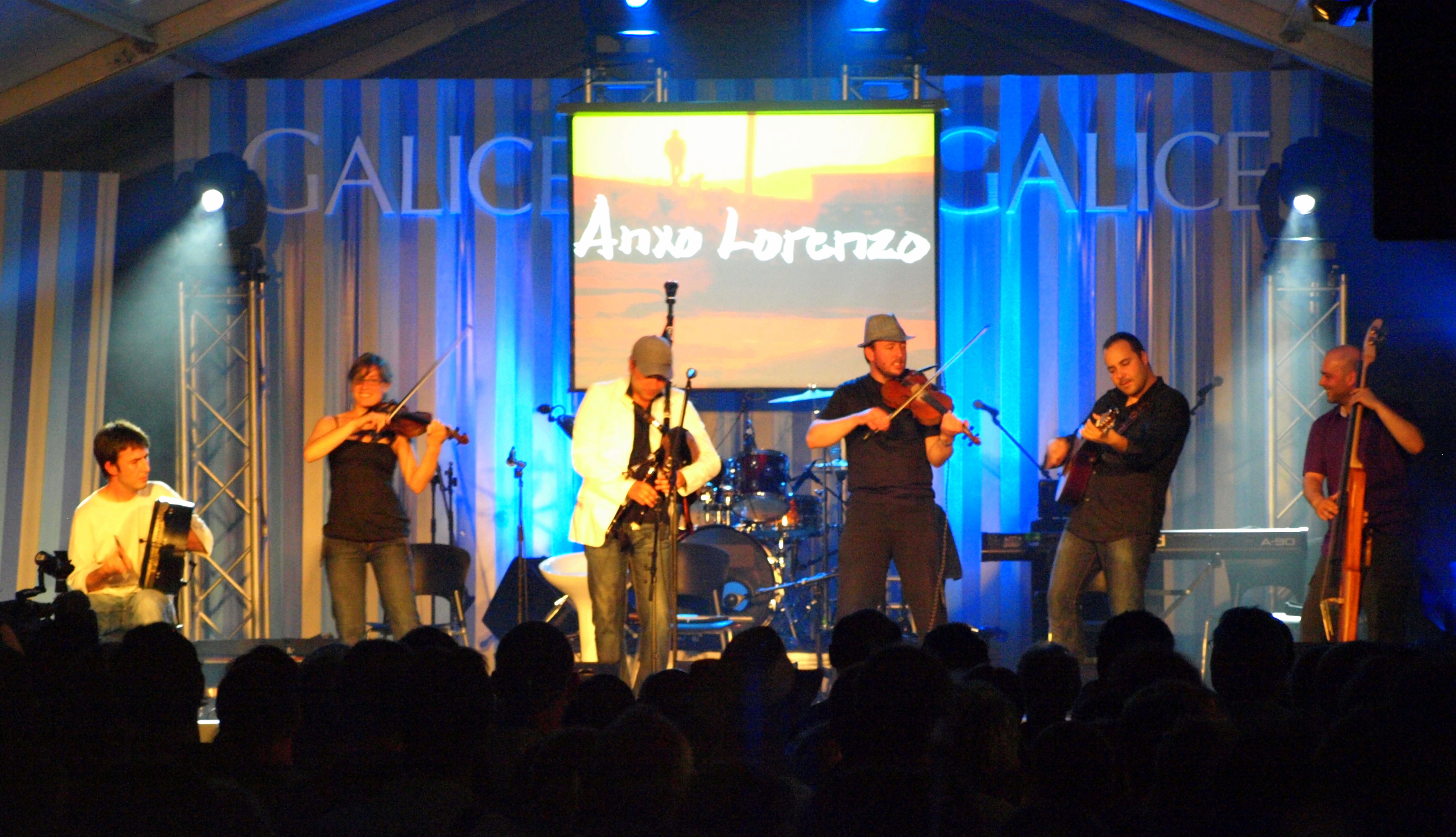 Musician Anxo Lorenzo and his band.